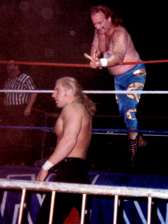 Jake Roberts at a WWF event in 1996